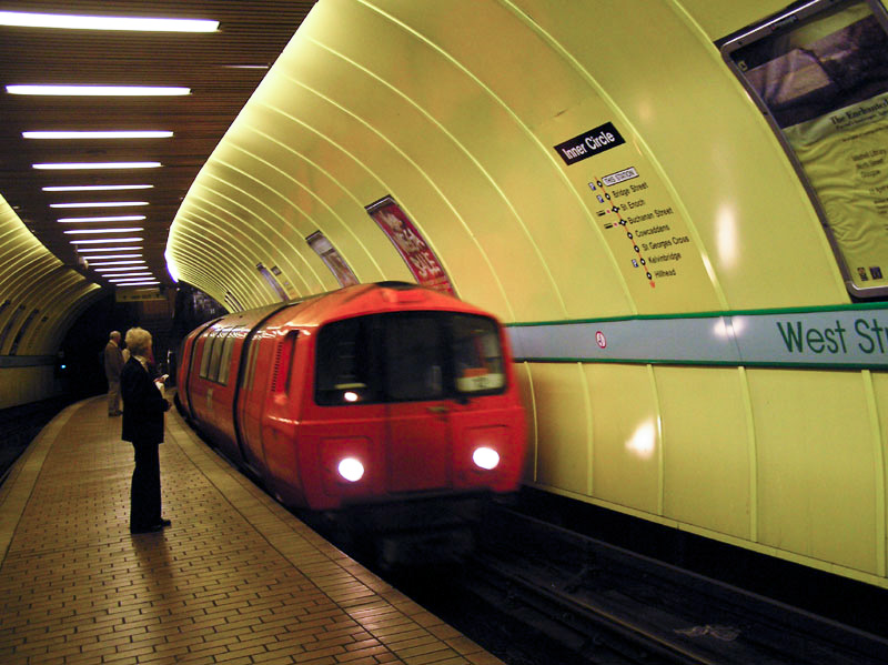 An electric "Clockwork Orange" train arrives at West Street station on the Glasgow Underground in Glasgow, Scotland.